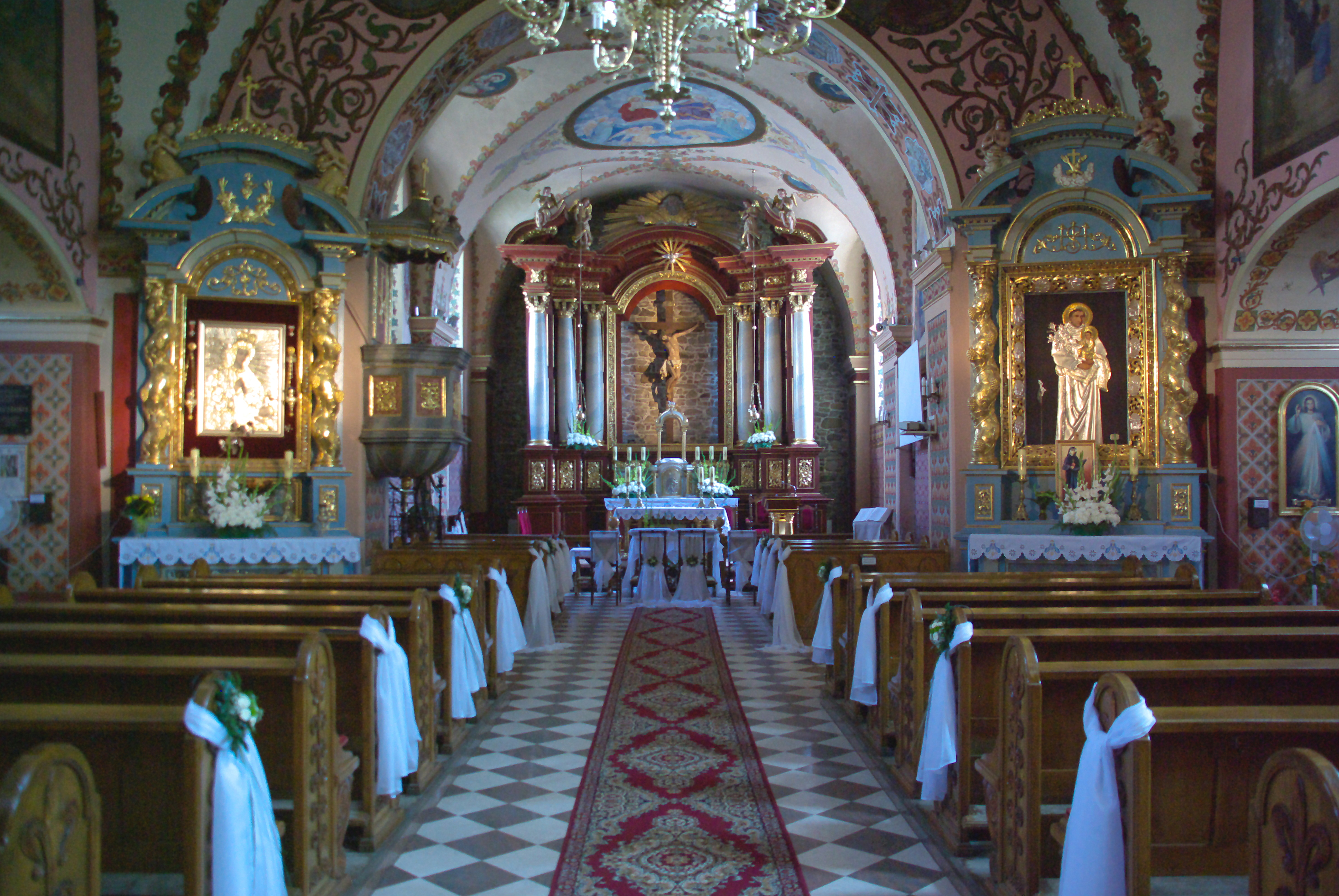 Interior - nave church oo. Franciscans in Sanok